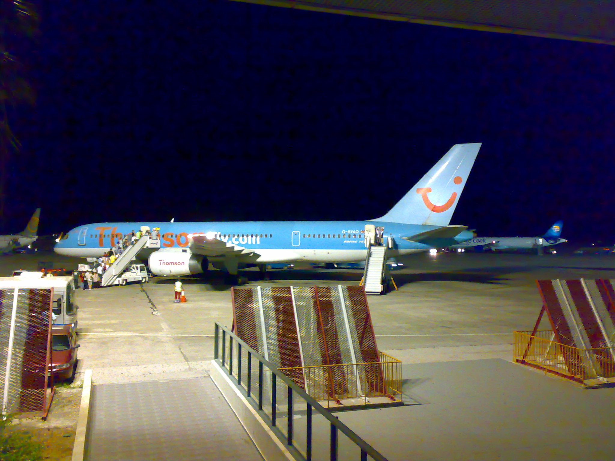 Thomsonfly Boeing 757-204, registration G-BYAO, during boarding at Rhodes International Airport.